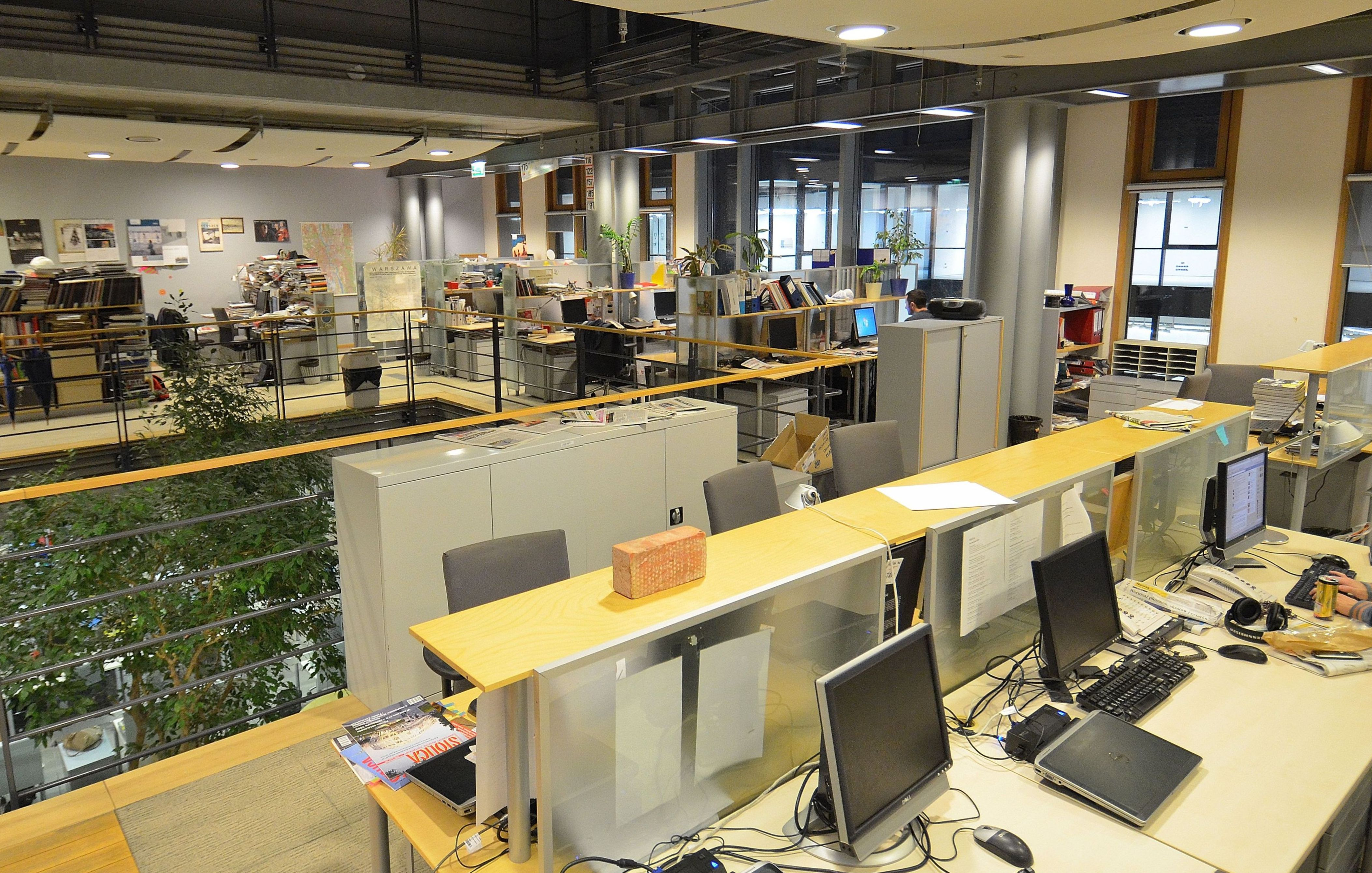 Office of "Gazeta Stołeczna at 8/10 Czerska Street in Warsaw